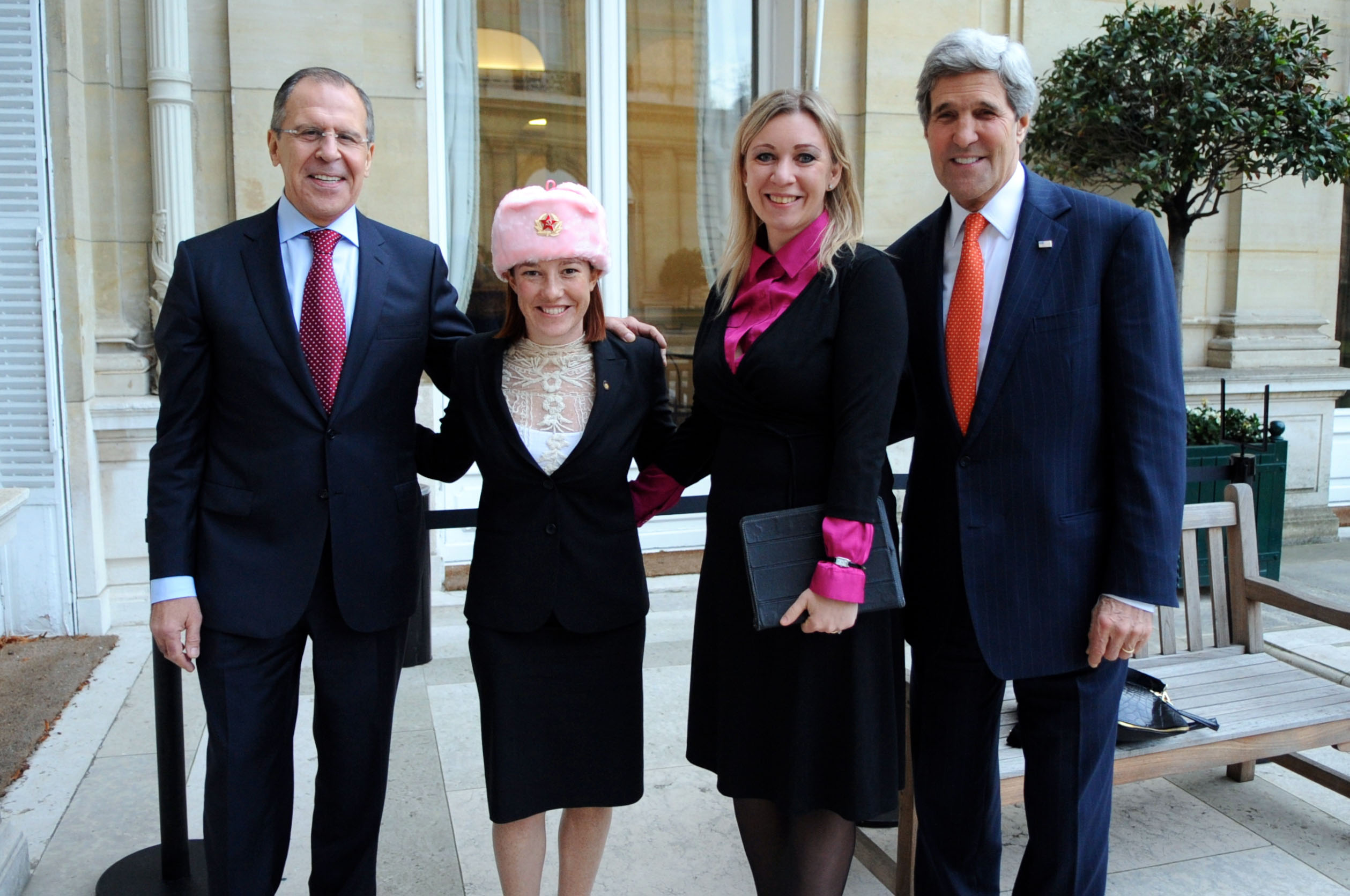 U.S. Department of State Spokesperson Jennifer Psaki -- sporting a shapka, or fur hat with ear flaps, given to her by Russian counterpart Maria Zakharova -- stands with Zakharova between U.S. Secretary of State John Kerry and Russian Foreign Minister Sergey Lavrov in Paris, France, on January 13, 2014. [State Department photo/ Public Domain]